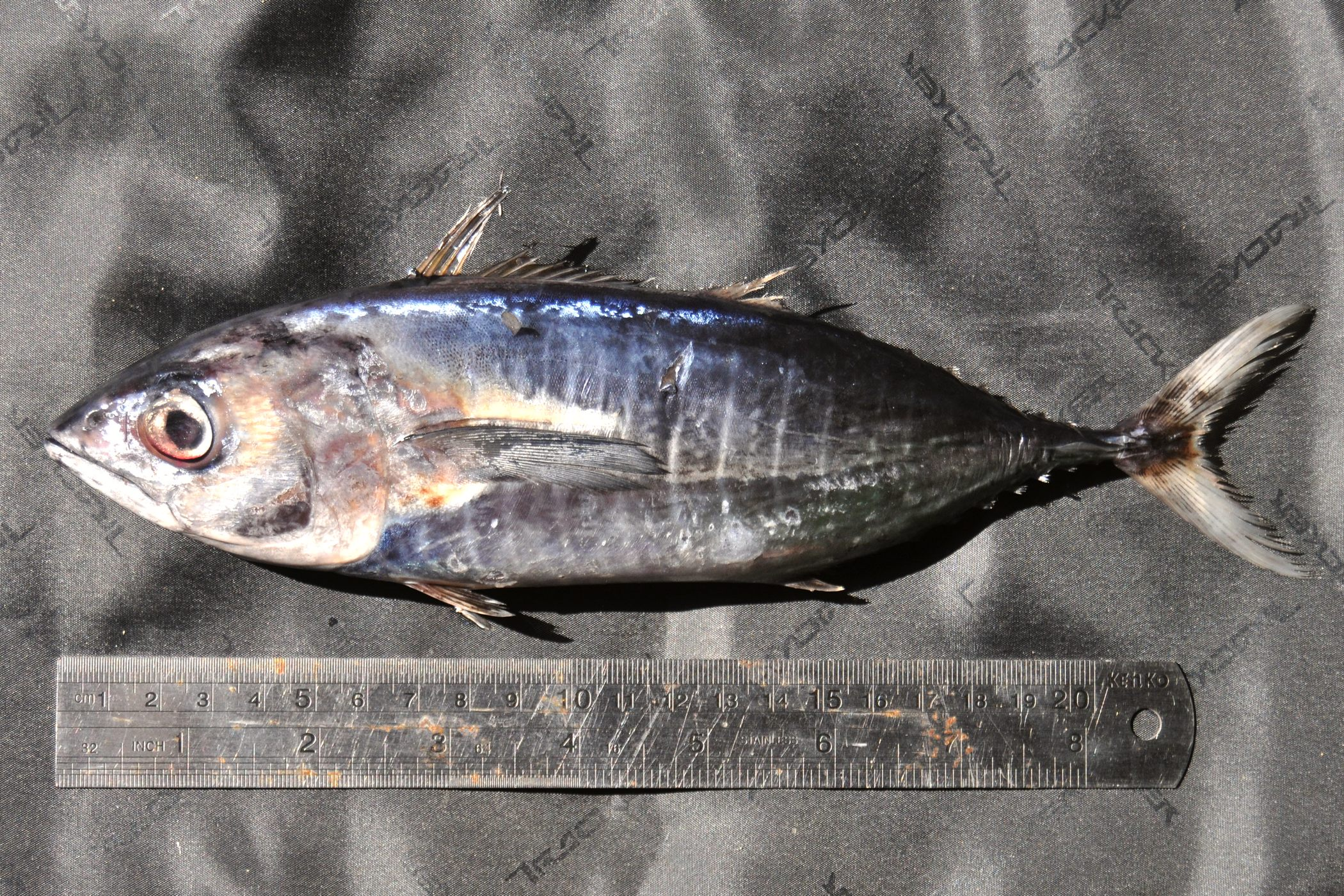 Thunnus obesus, juvenile 22cm FL, from a local market in Bogor, West Java, Indonesia.